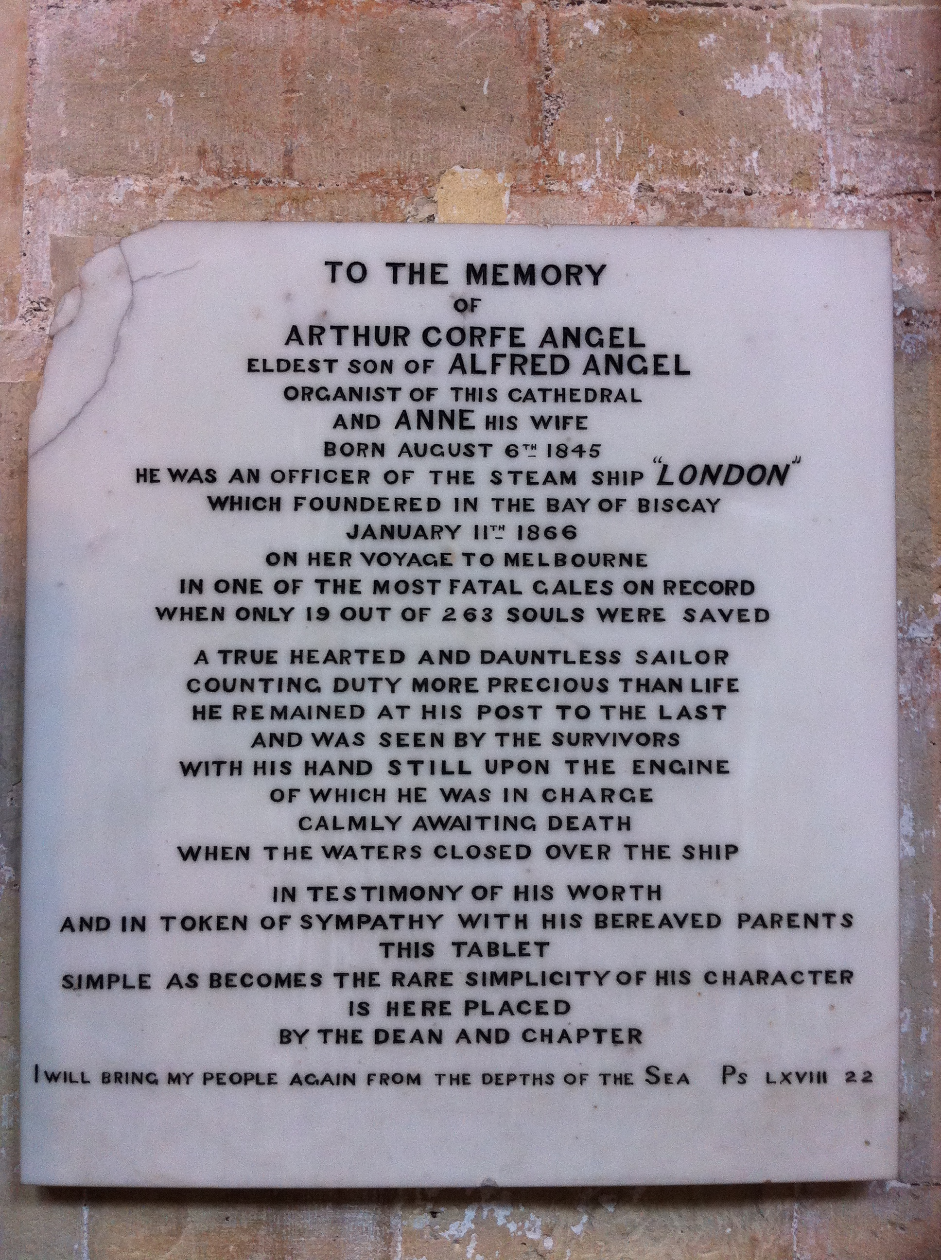 Memorial to Arthur Corfe Angel, Exeter Cathedral. Died in the wreck of the S.S. London, 11 January 1866.